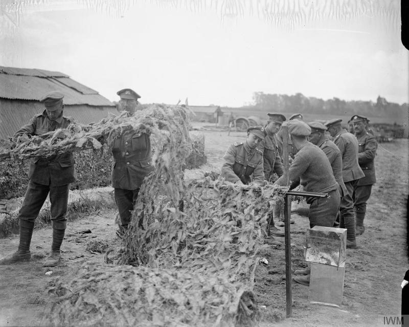 Camouflage Techniques on the Western Front, 1914-1918 Making camouflage netting at Basseux, 16 June 1918.